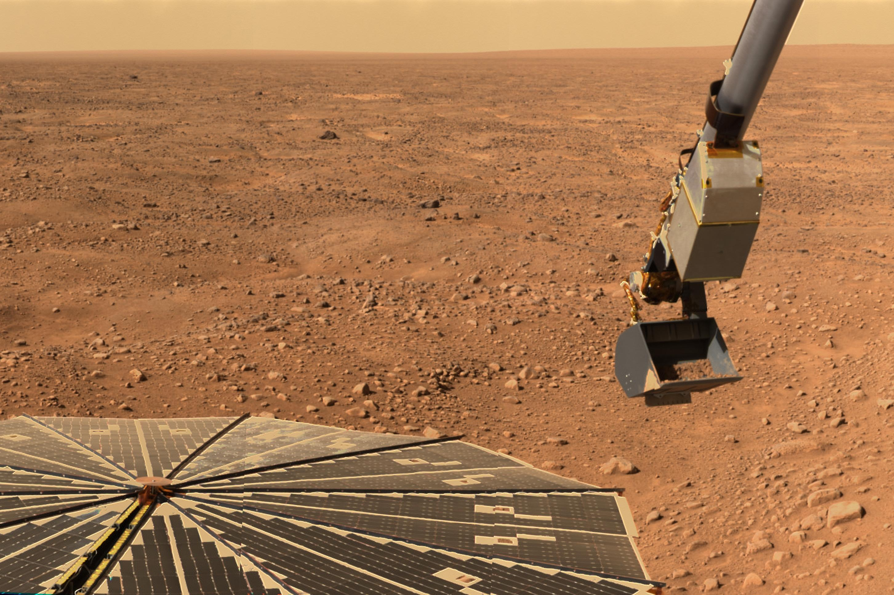 This image shows NASA’s Phoenix Mars Lander’s solar panel and the lander’s Robotic Arm with a sample in the scoop. The image was taken by the lander’s Surface Stereo Imager looking west during Phoenix’s Sol 16 (June 10, 2008), or the 16th Martian day after landing. The image was taken just before the sample was delivered to the Optical Microscope. This view is a part of the "mission success" panorama that will show the whole landing site in color. The Phoenix Mission is led by the University of Arizona, Tucson, on behalf of NASA. Project management of the mission is by NASA's Jet Propulsion Laboratory, Pasadena, Calif. Spacecraft development is by Lockheed Martin Space Systems, Denver.